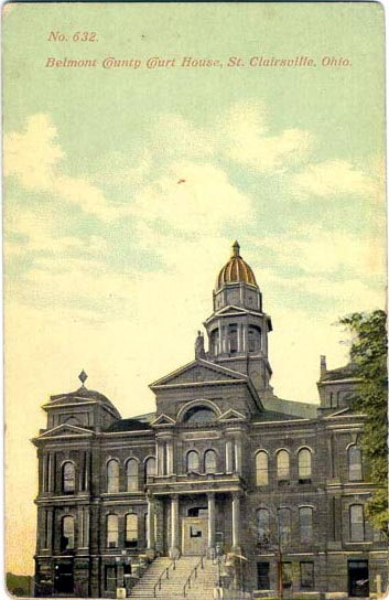 Belmont County Courthouse 1891 in St. Clairsville, Ohio